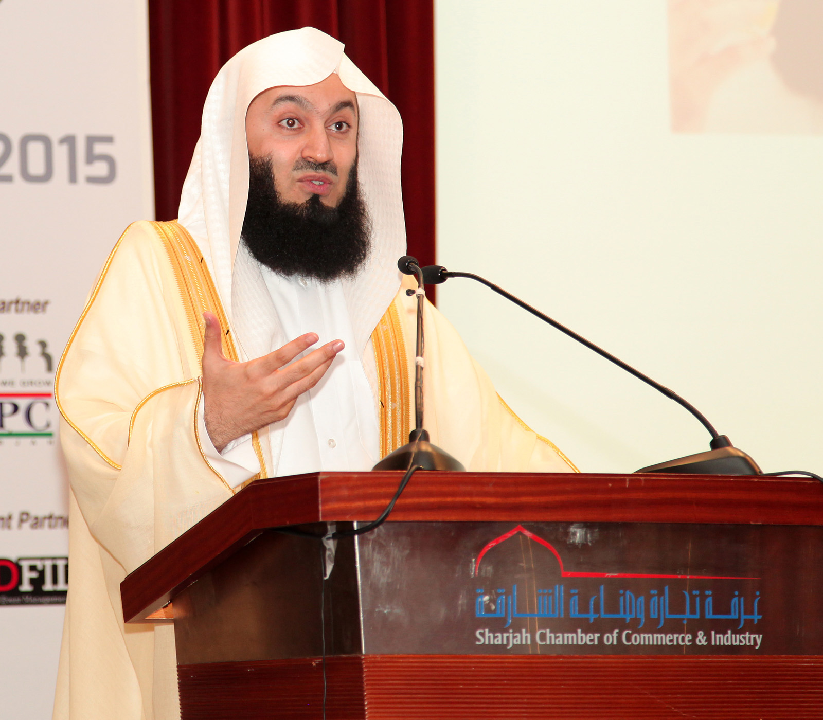 Mufti Menk Talking at Kerala State Business Excellence Awards 2015